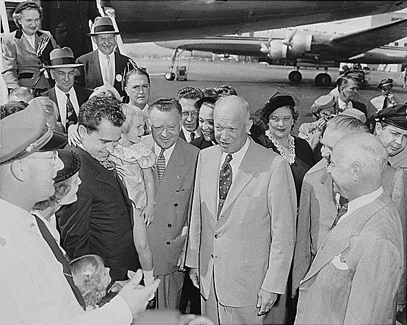 General Dwight Eisenhower meets the daughters of his running mate, Senator Richard Nixon, Washington National Airport, September 10, 1952